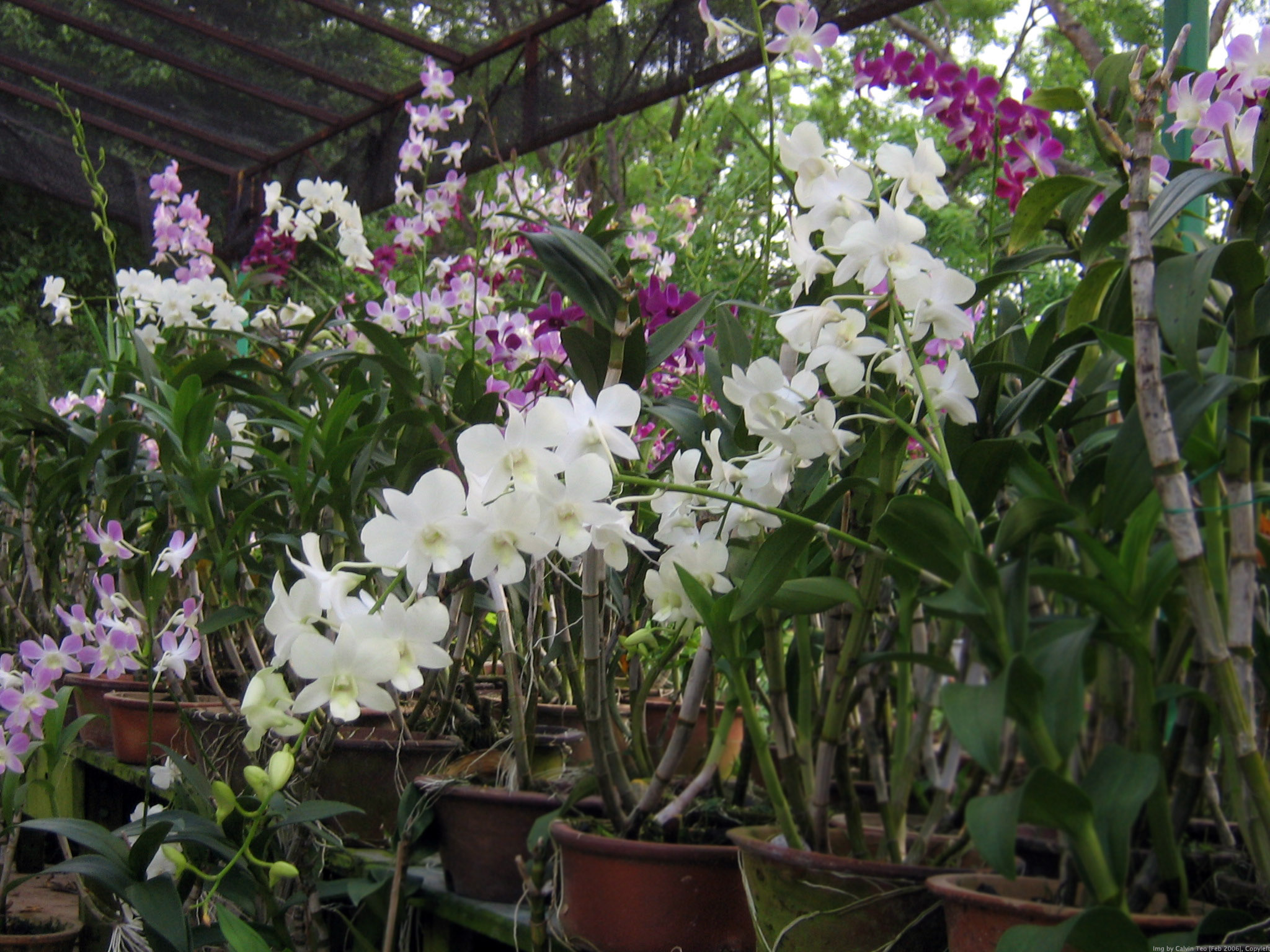 A small nursery filled with Orchid Plants in bloom. (Singapore) Img by Calvin Teo, May 2006